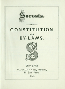 Sorosis Club of New York in the 1860s